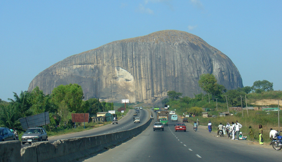 The Zuma Rock near Suleja, Nigeria.